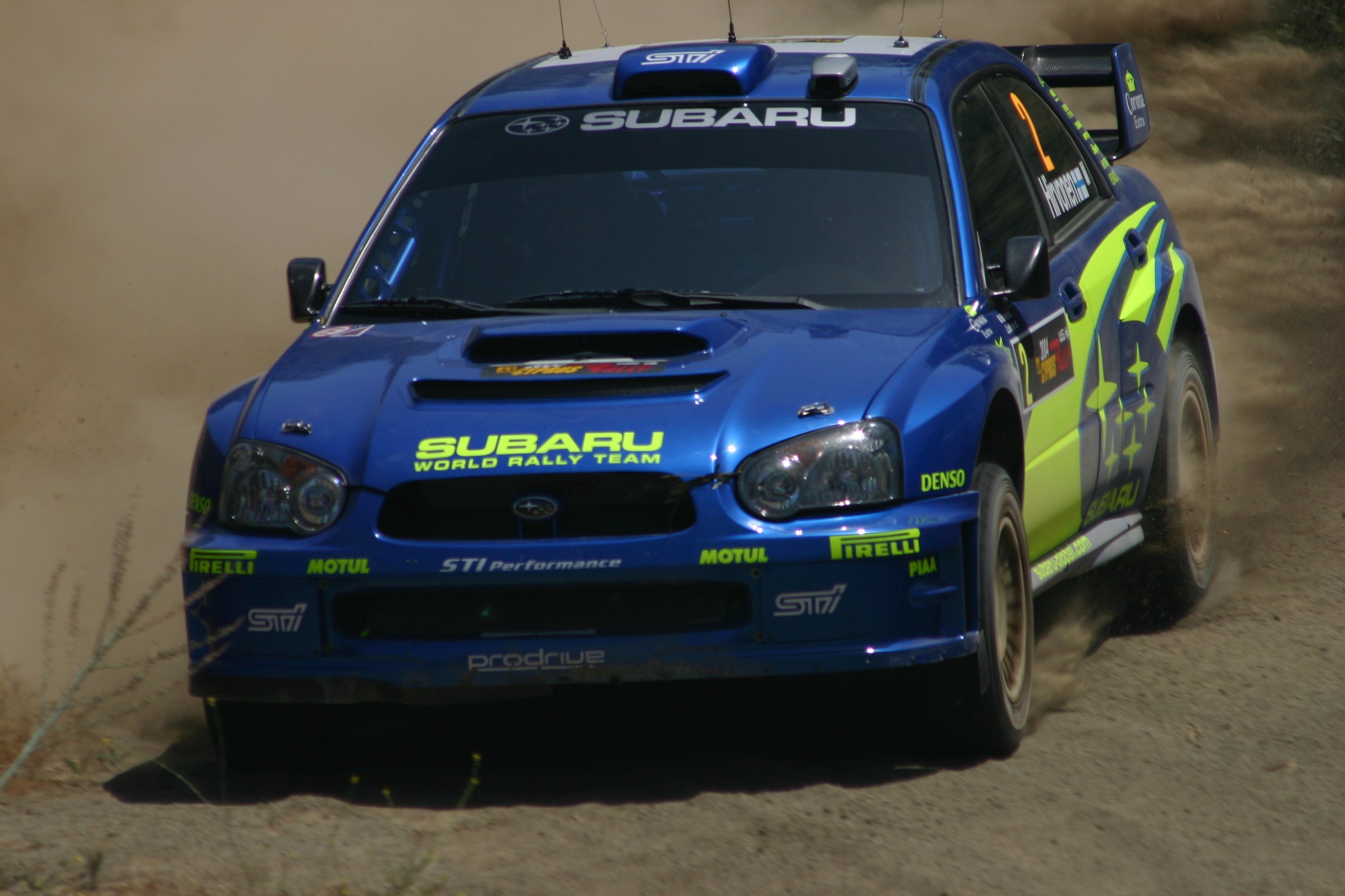 Mikko Hirvonen driving his Subaru Impreza WRC during the shakedown of the 2004 Cyprus Rally.